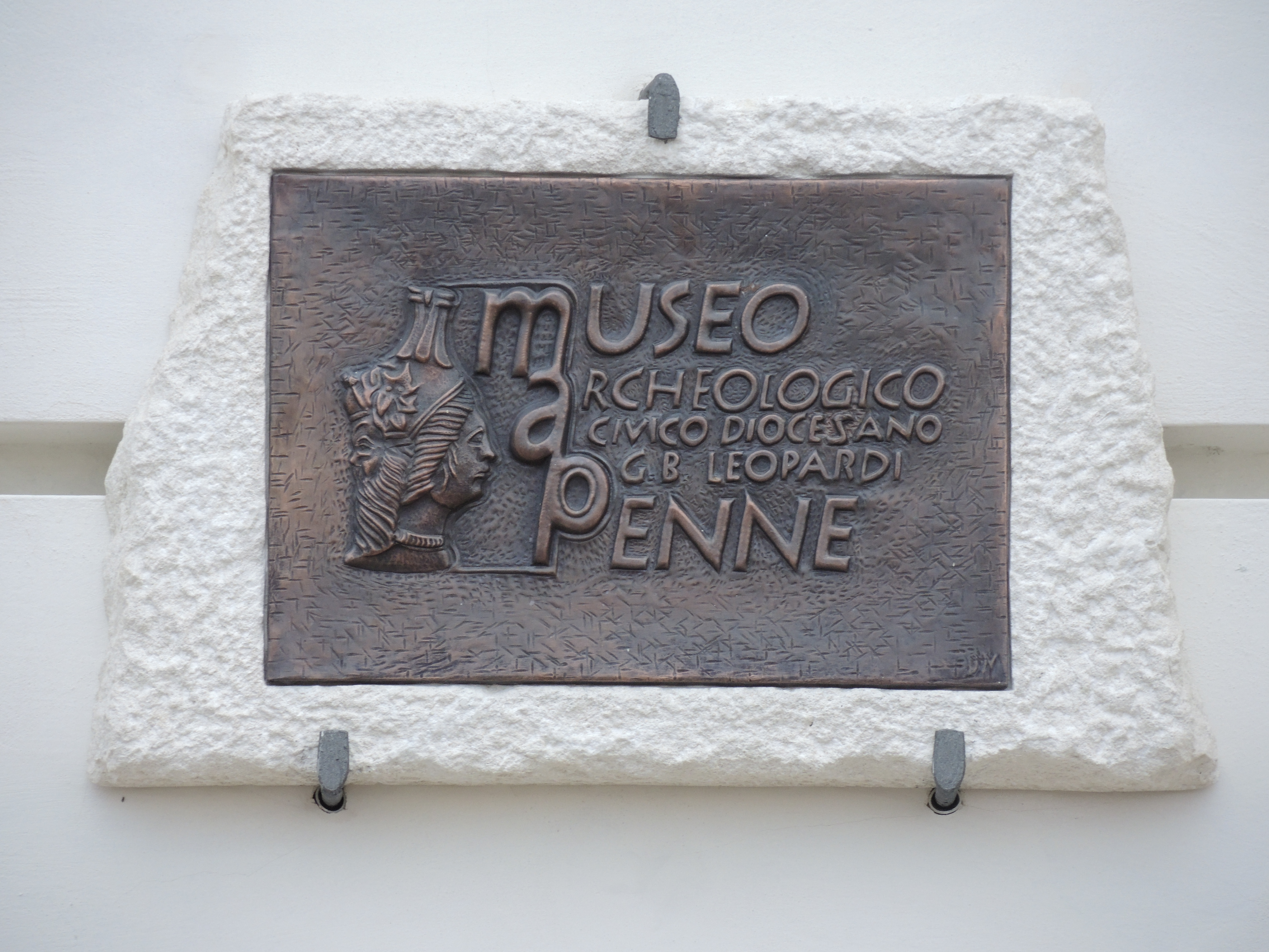 Penne: Museo Archeologico Civico e Diocesano Giovanni Battista Leopardi